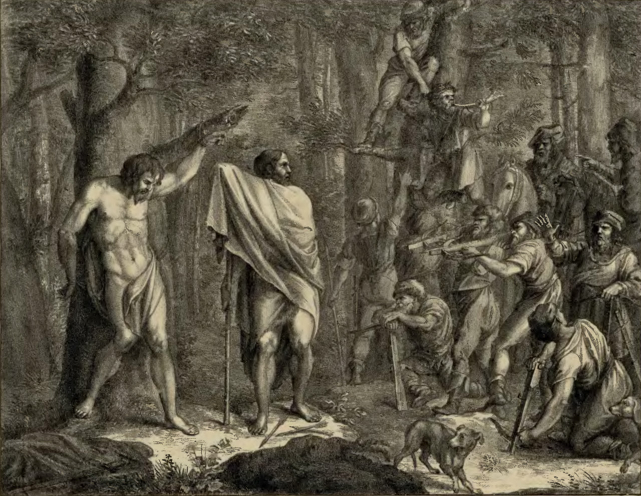 Jaromir of Bohemia (on the left) protected by John the Baptist against pagans.